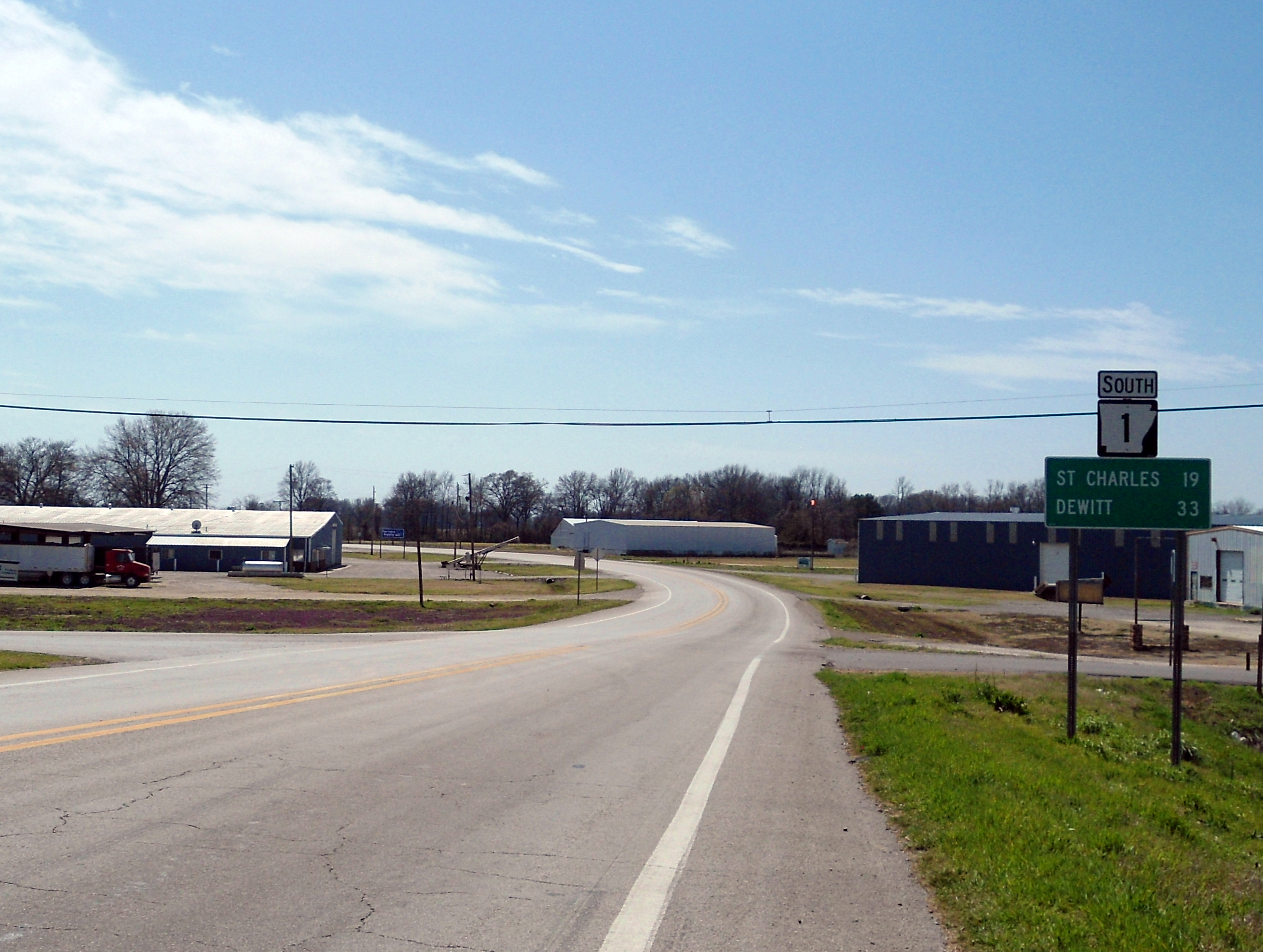 Highway 1 just south of US 49 in Marvell, AR